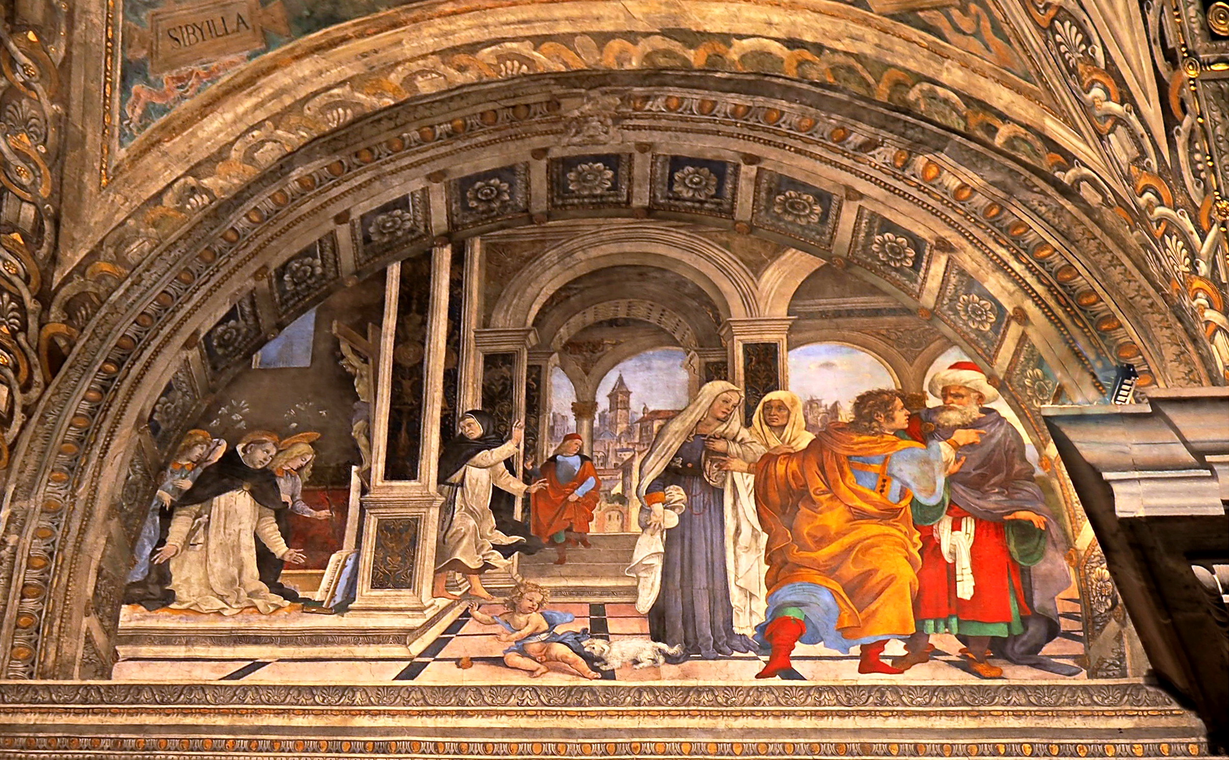 Santa Maria sopra Minerva (Rome); Carafa Chapel; Miracles of St. Thomas